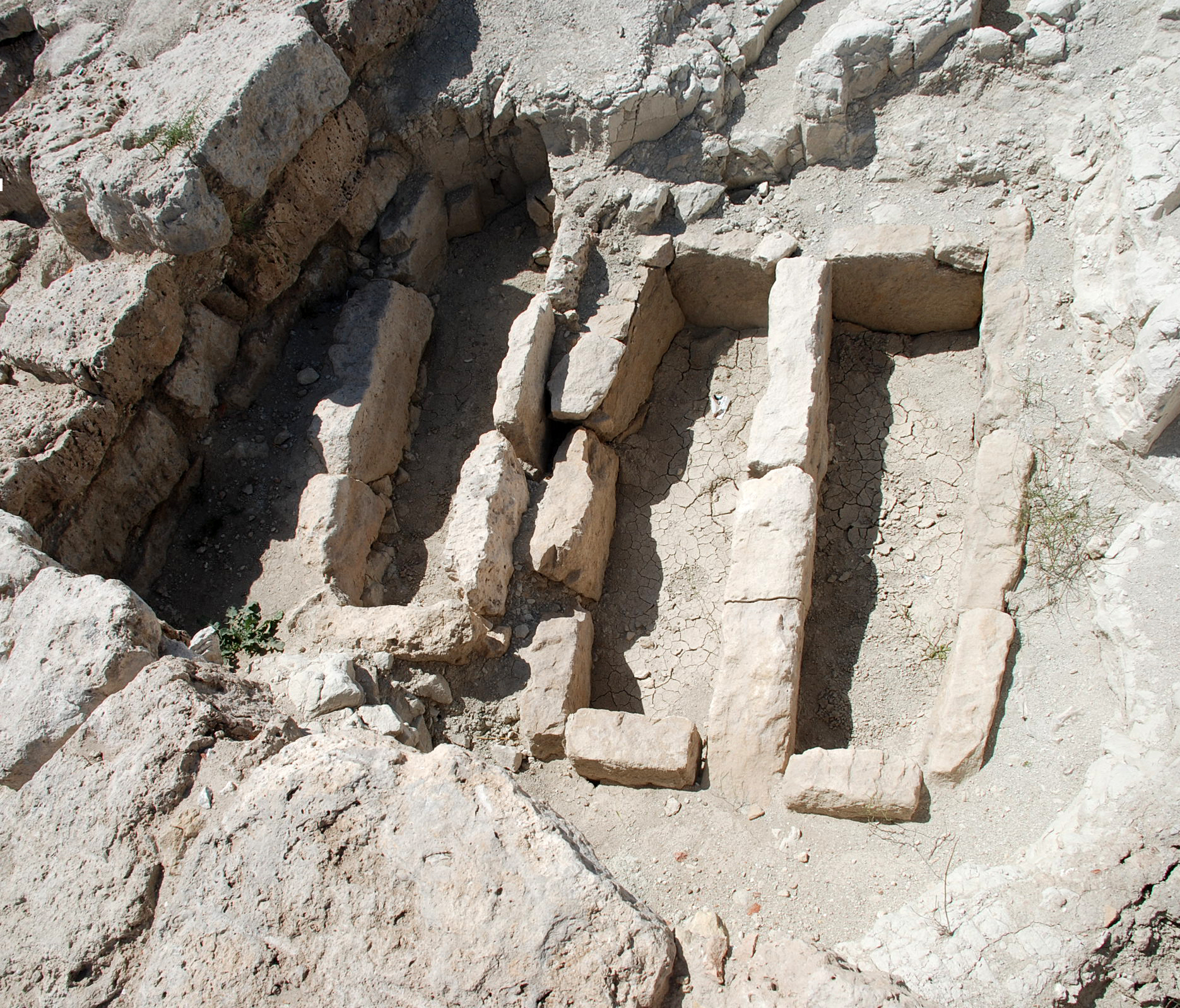 Archaeological site of La Poza in Baltanás (Palencia, Castile and León).